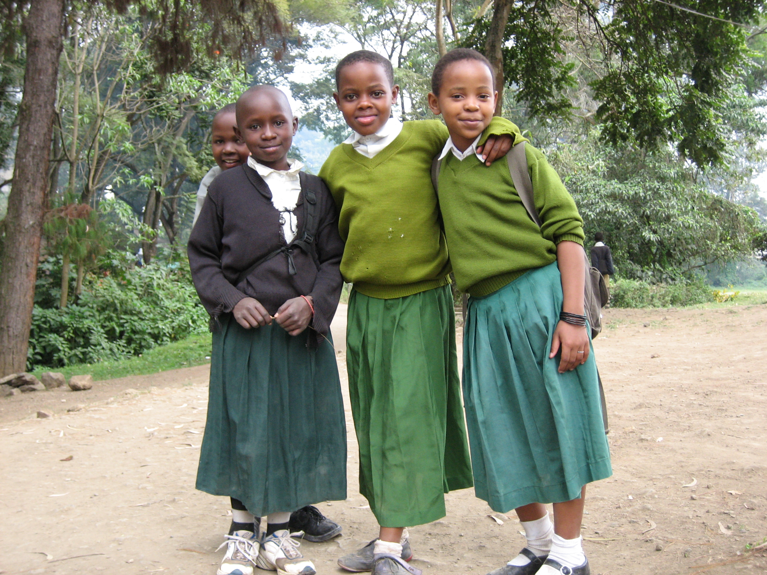 School boys in Arusha, Tanzania